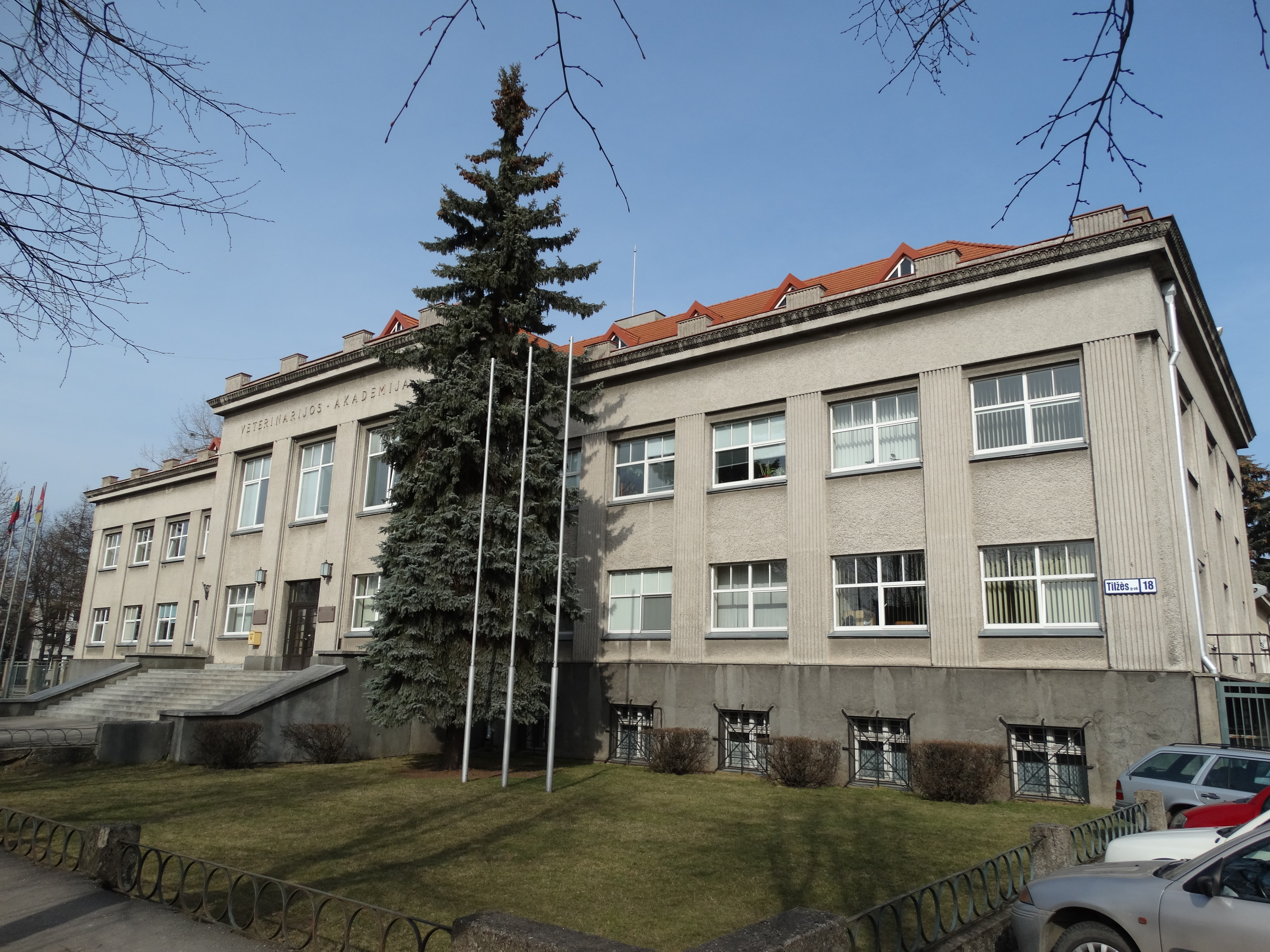 Veterinary Academy, Kaunas, Lithuania